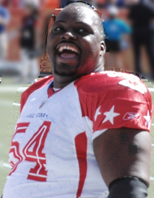 Kansas City Chiefs offensive guard Brain Waters at the 2009 Pro Bowl